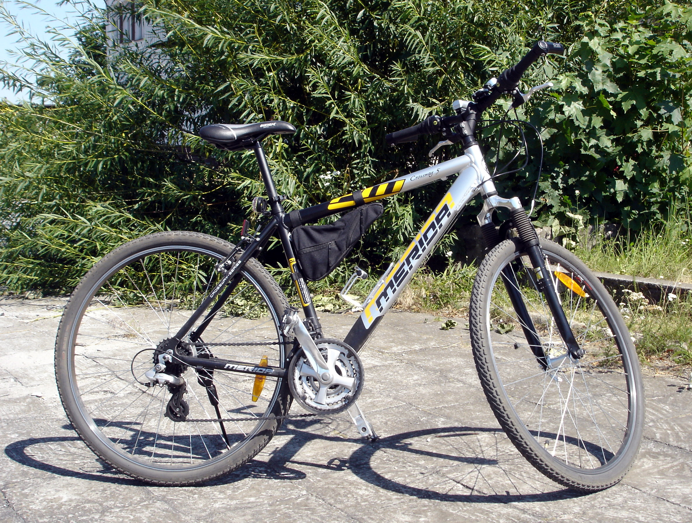 Merida Crossway 5.